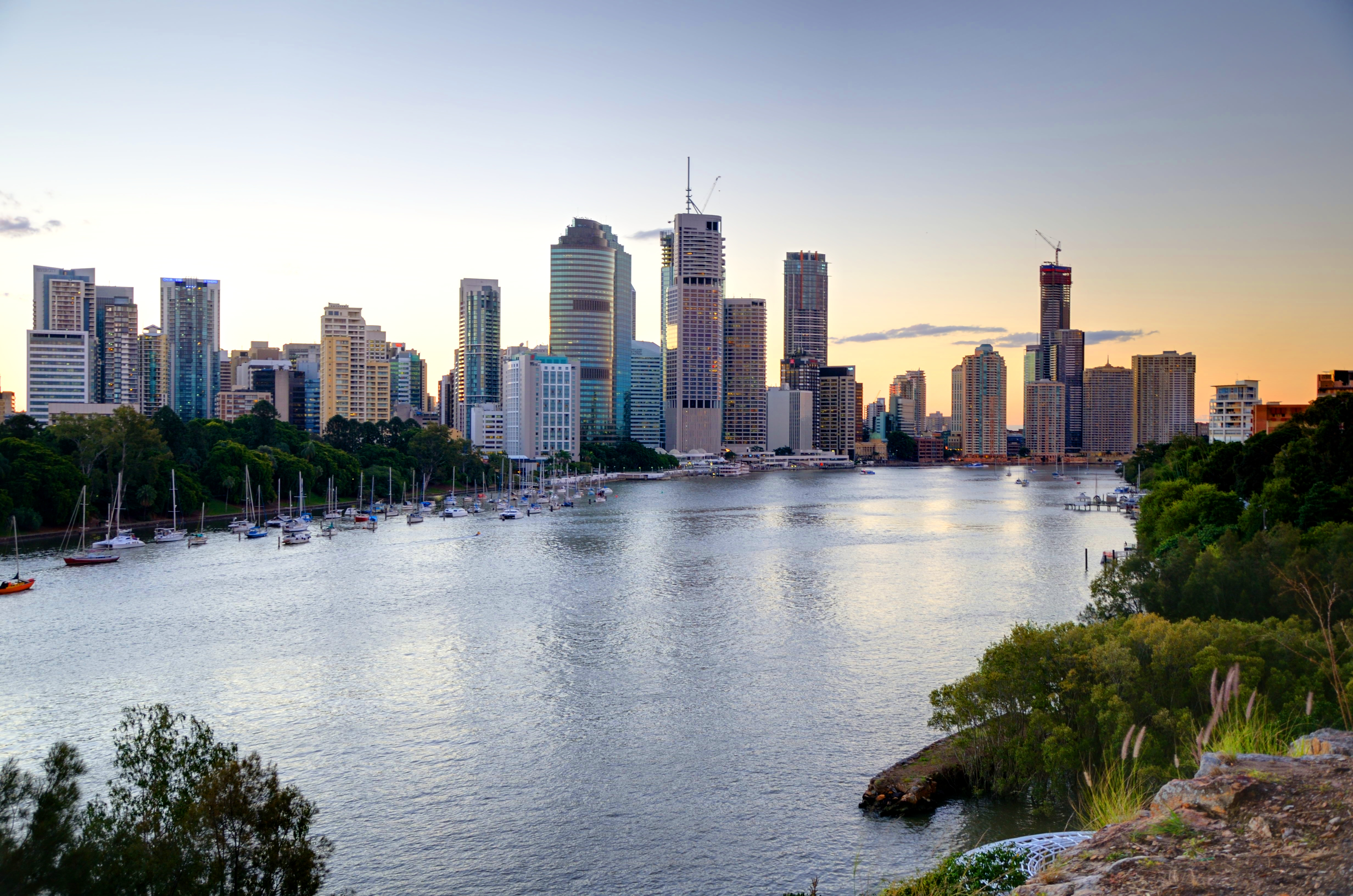 Brisbane as seen from Kangaroo Point.